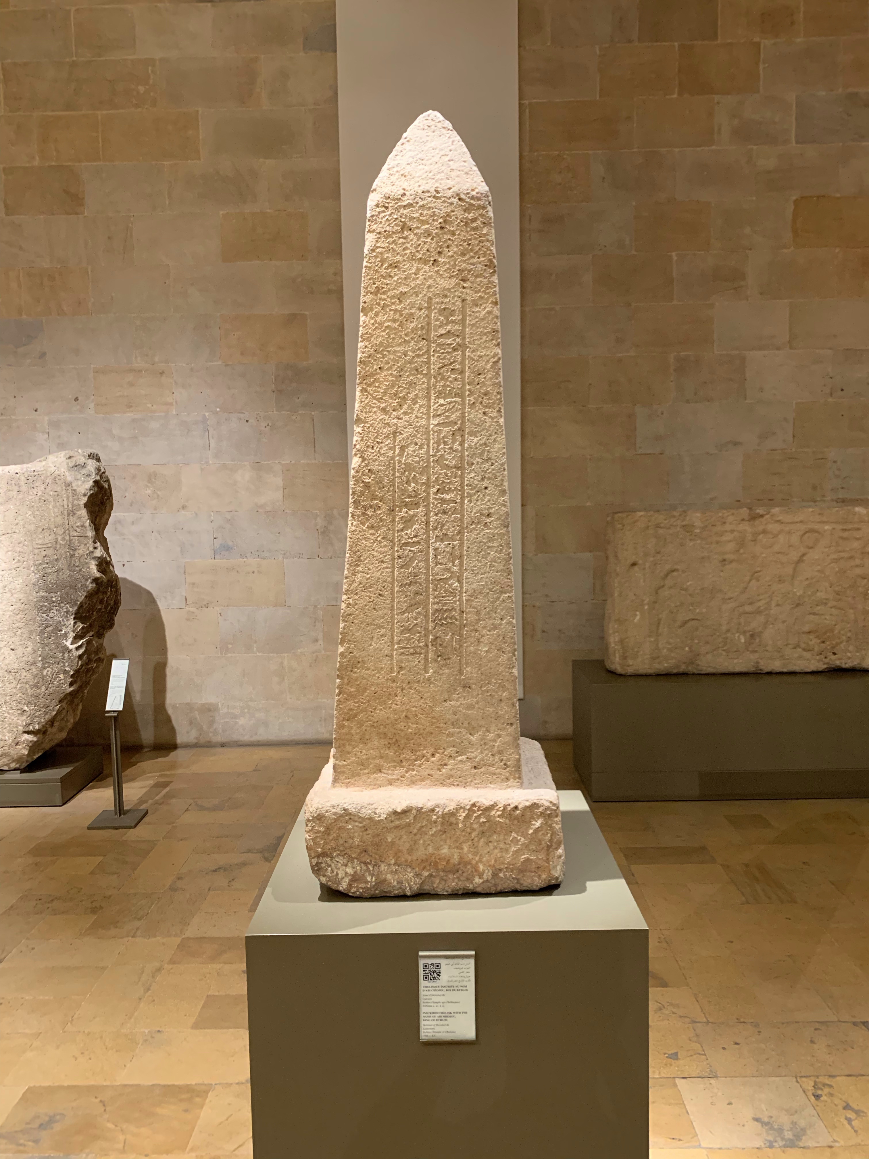 National Museum of Beirut – Resheph obelisk